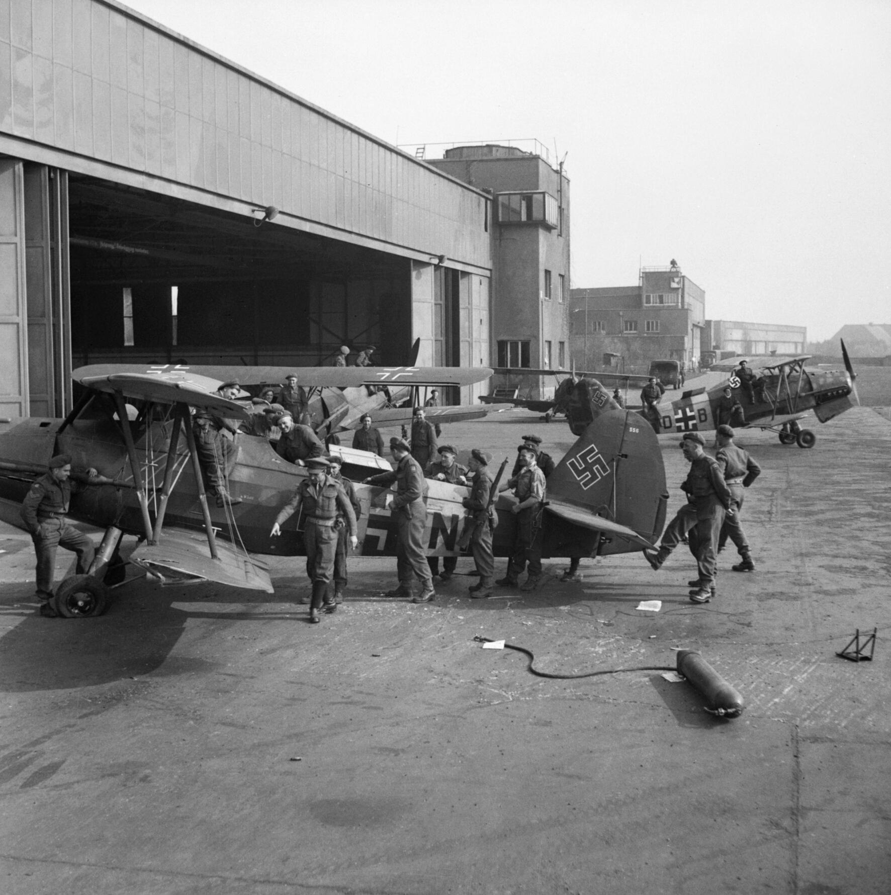 The British Army in North-west Europe 1944-45 British troops inspecting abandoned German Gotha Go 145 training aircraft at Celle airport, 13 April 1945.